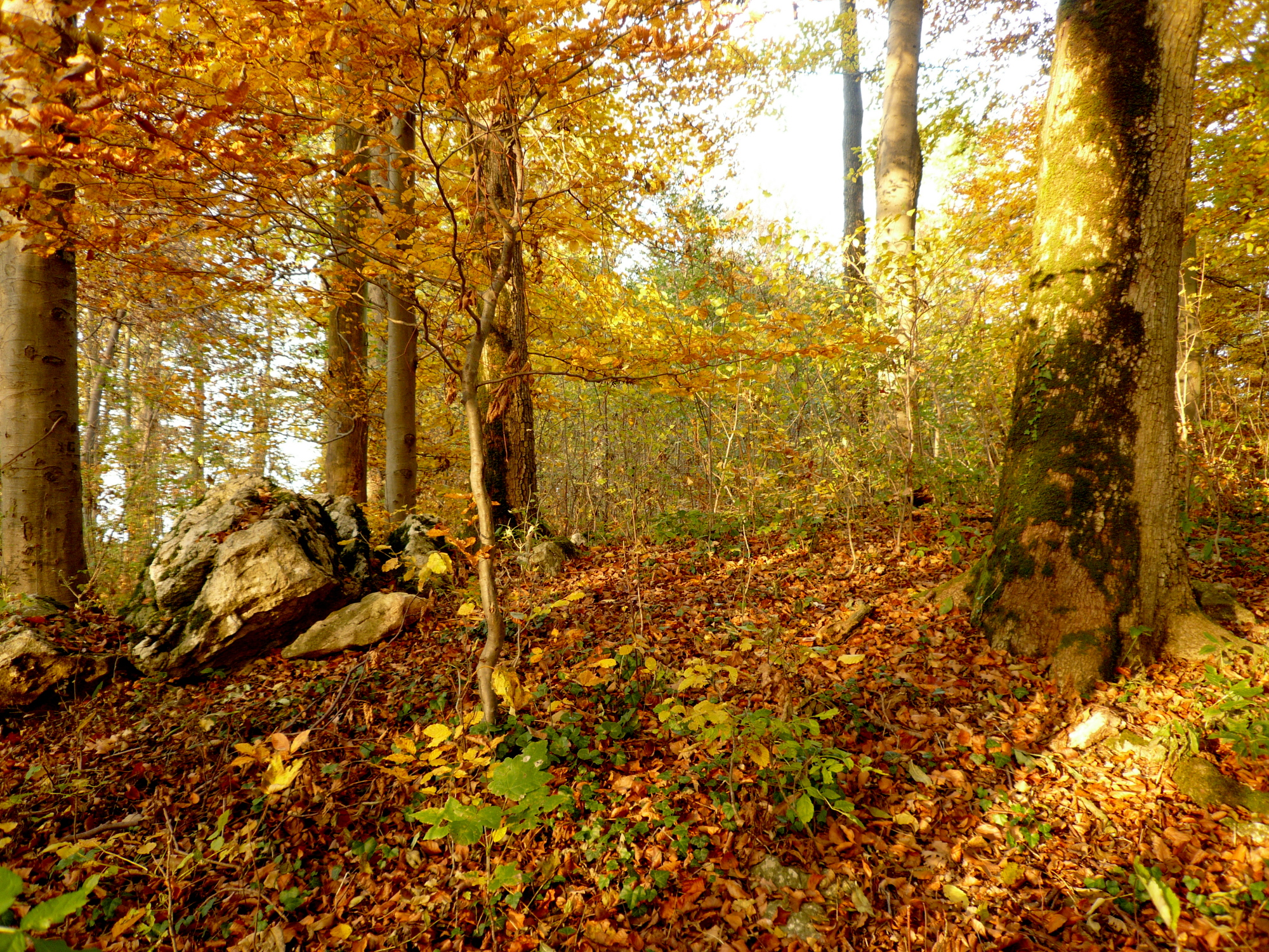 Summit of mountain Jusi, Schwaebische Alb